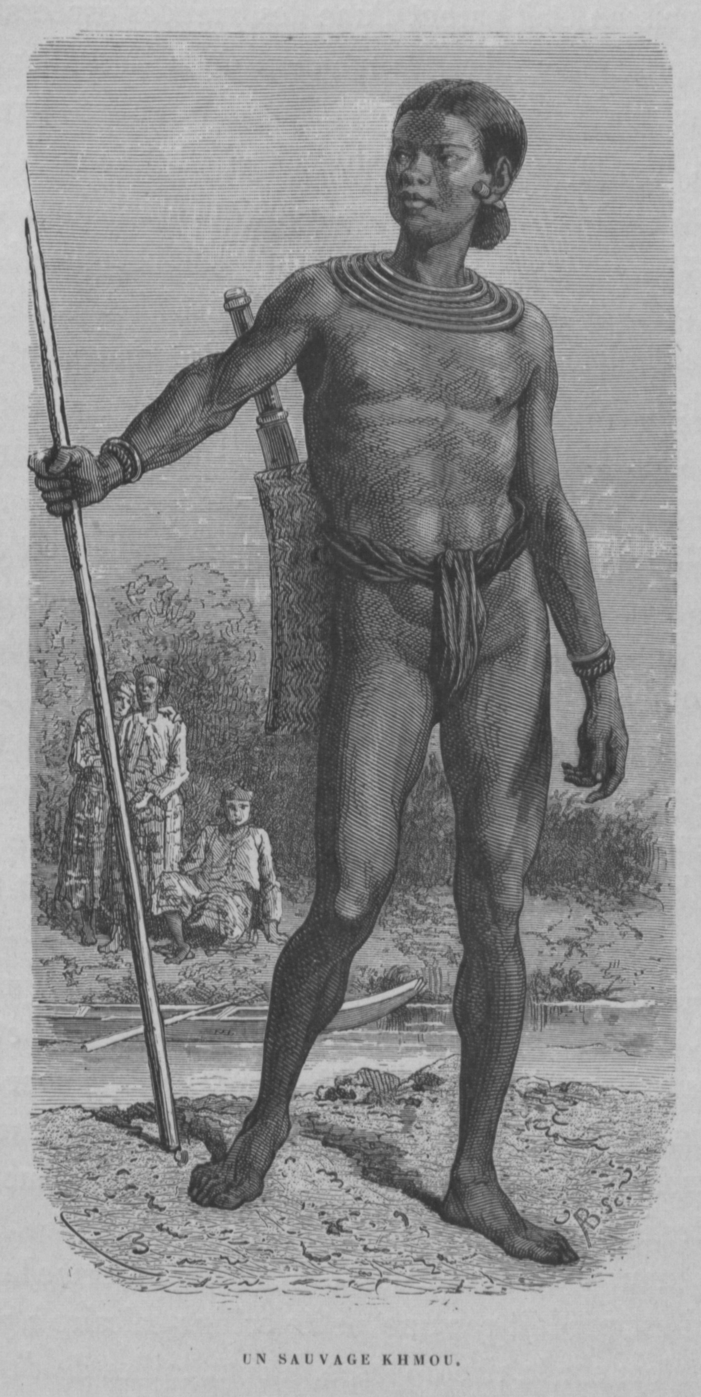 Voyage d'exploration en Indo-Chine (1873, Francis Garnier)